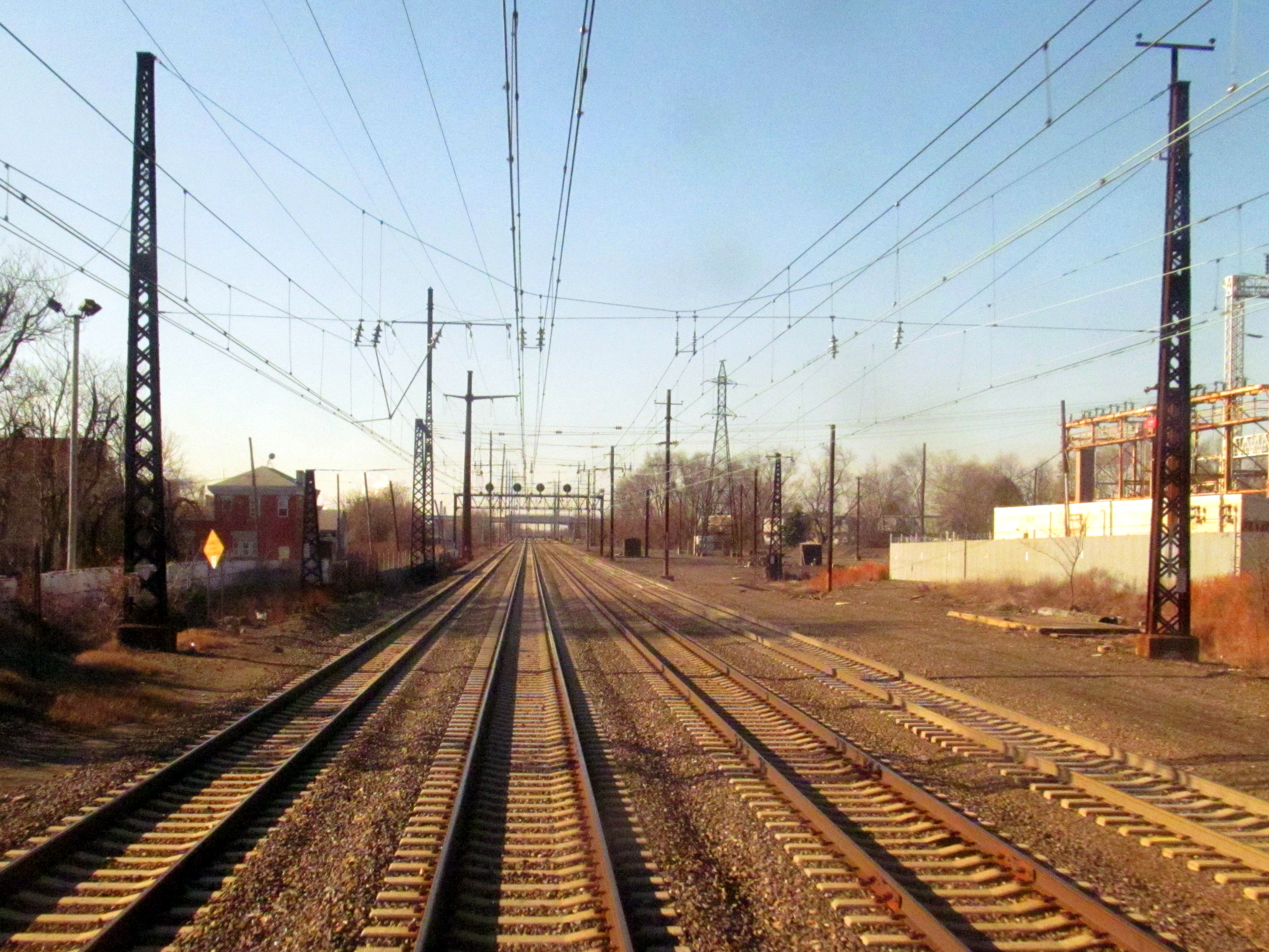 Former site of Lamokin Street station viewed from the rear of an Amtrak train in January 2016. The concrete base of the shelter is visible at right.